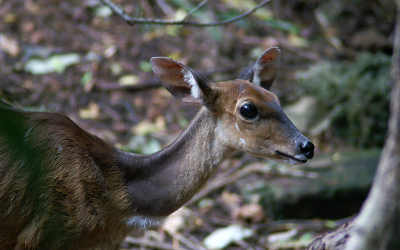 Bushbuck